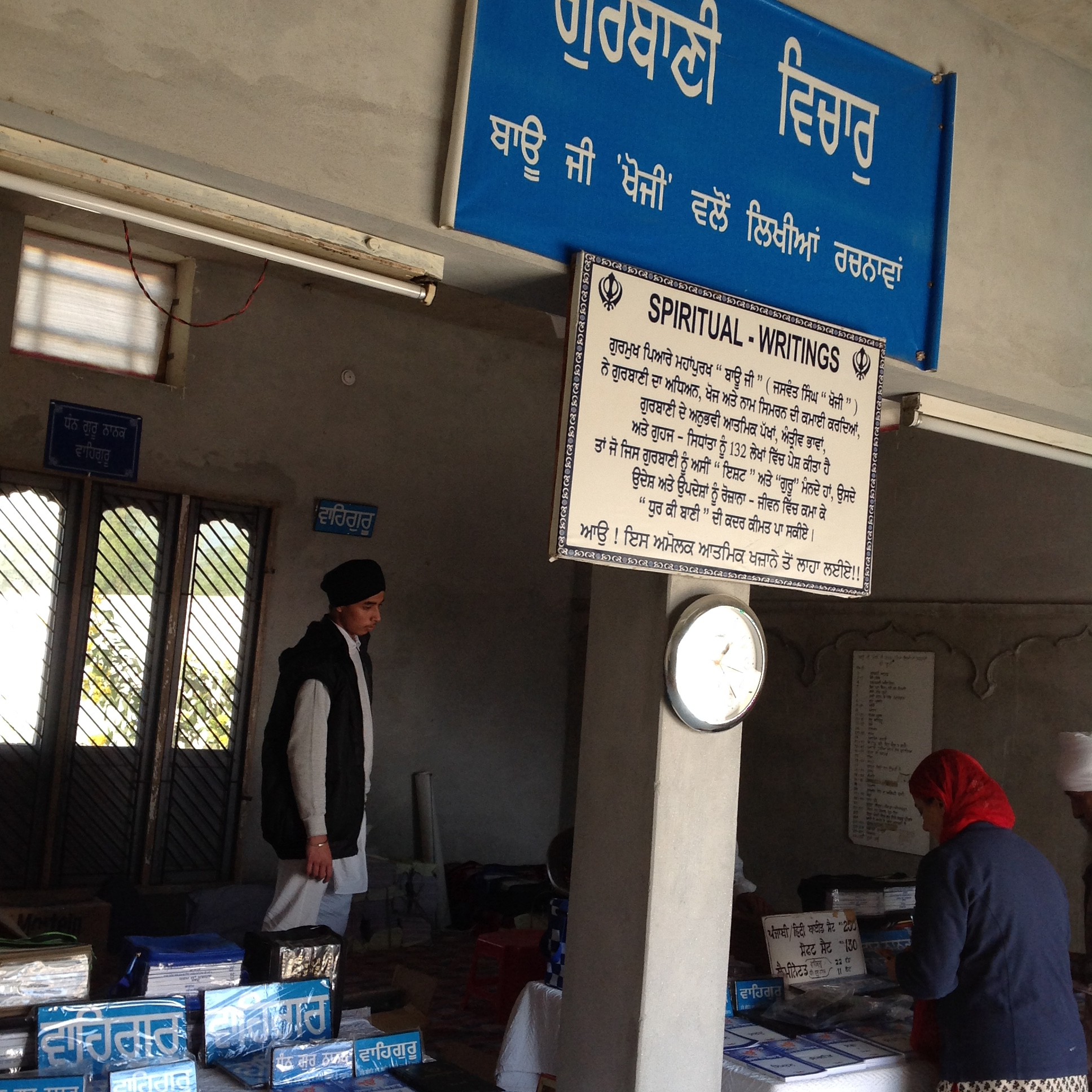 Image to show display of books by 'khoji'